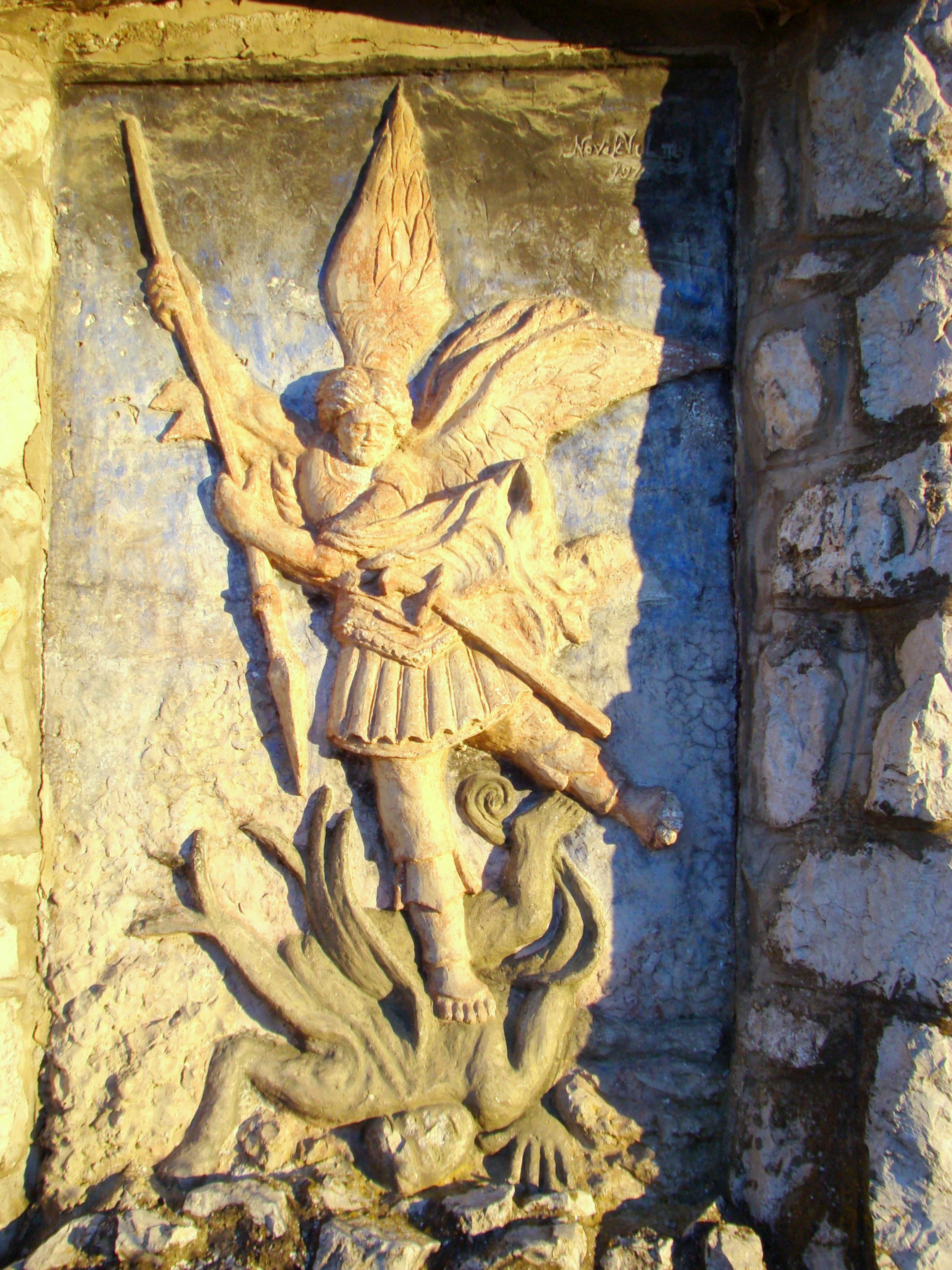 Roman-Catholic church in Mihai Viteazu, Cluj County, Romania